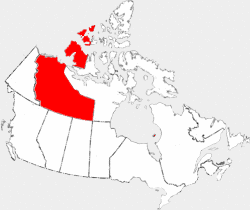 Locator map for Northwest Territories